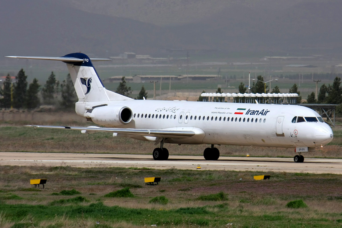 Iran Air Fokker 100 taxiing at Khorramabad Airport for departure to Tehran as IR320